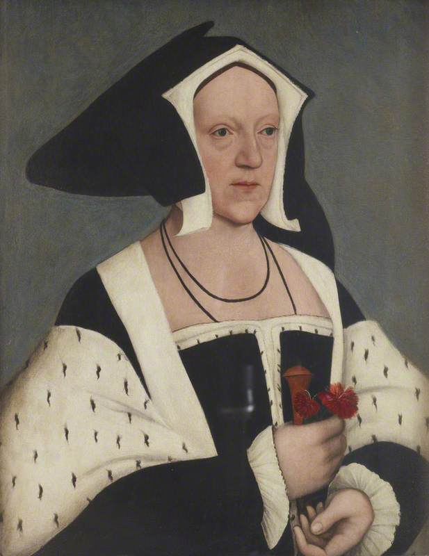 After Hans Holbein the Younger, Margaret Wotton, Marchioness of Dorset, 1570–1599, oil on panel, 41.0 × 32.2 cm (Anglesey Abbey, Lode, Cambridgeshire; National Trust inventory number 515504).